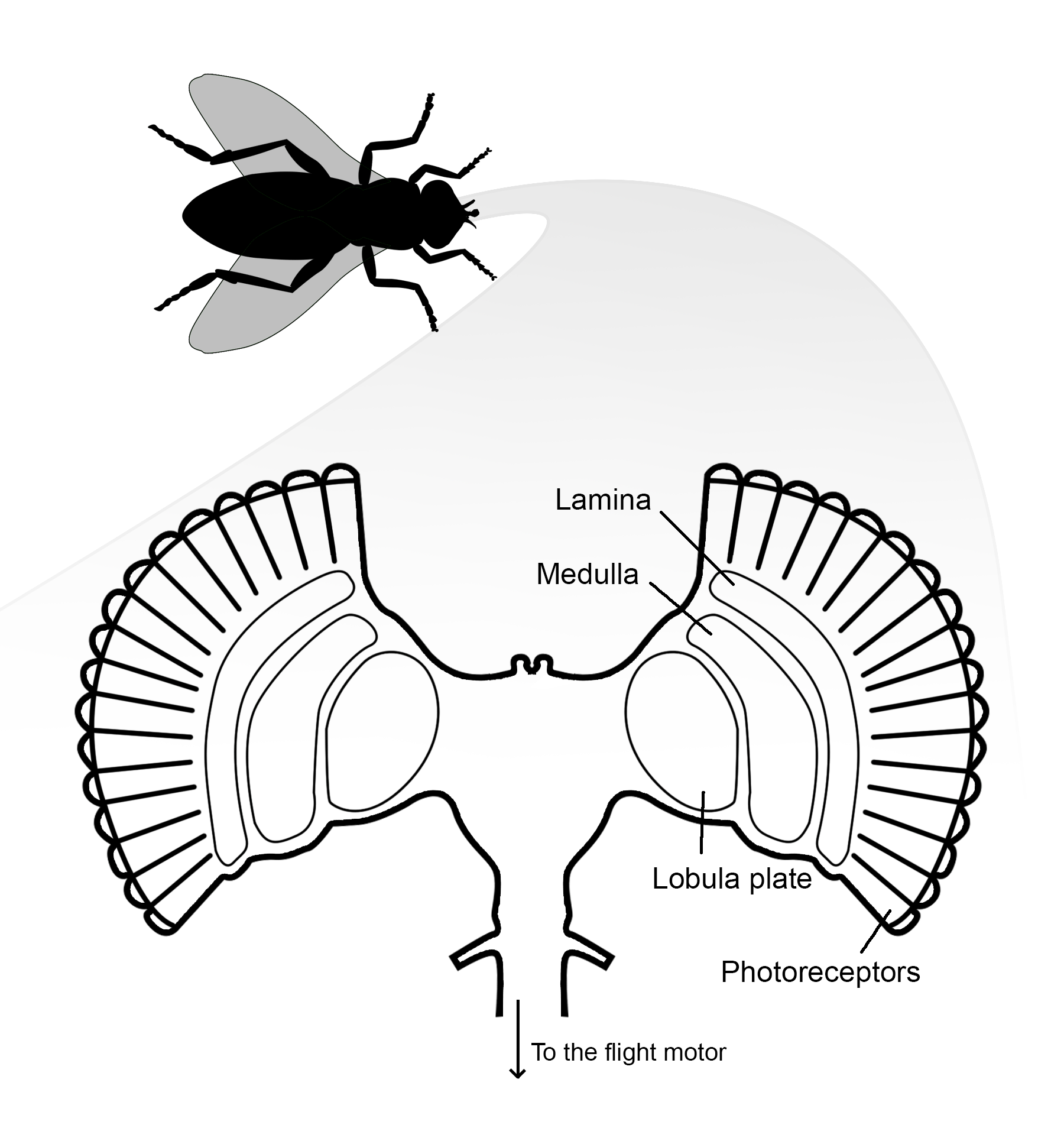 This is an image which visually represents the neural network and major sections of the true fly.